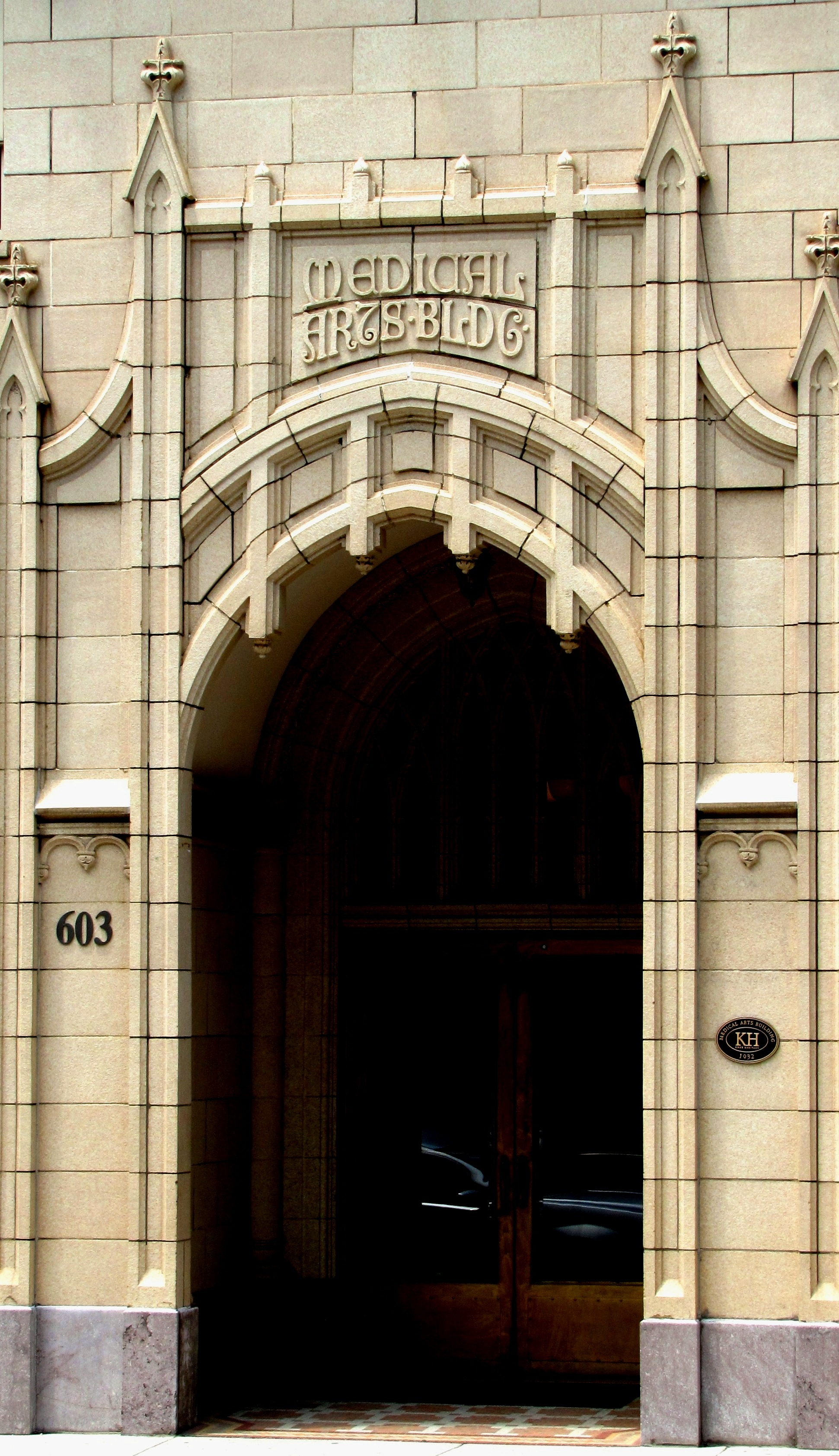 The Main Street entrance of the Medical Arts Building in Knoxville, Tennessee, USA.